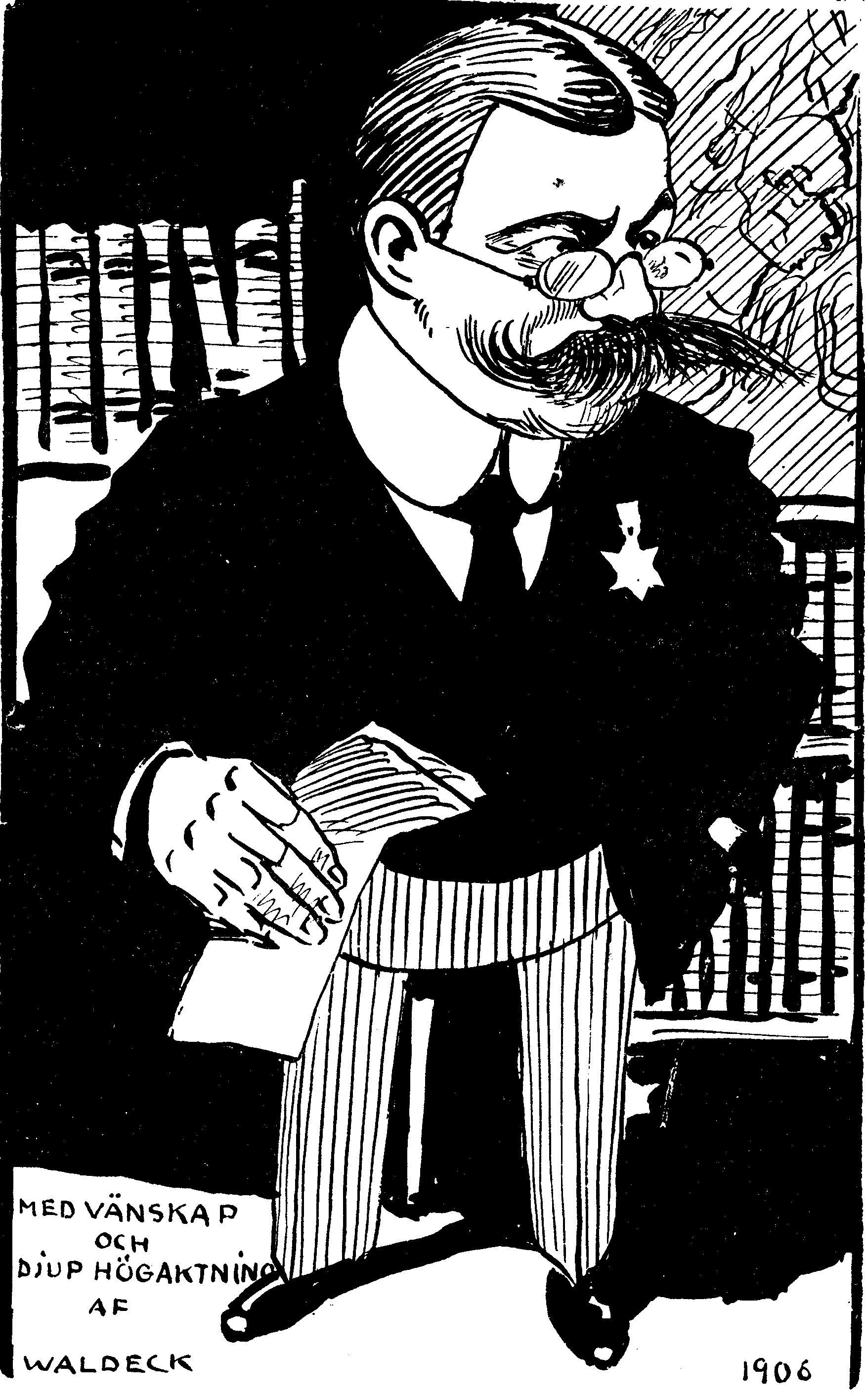 Erik Benjamin Rinman (1870-1932), Swedish publicist and politician.